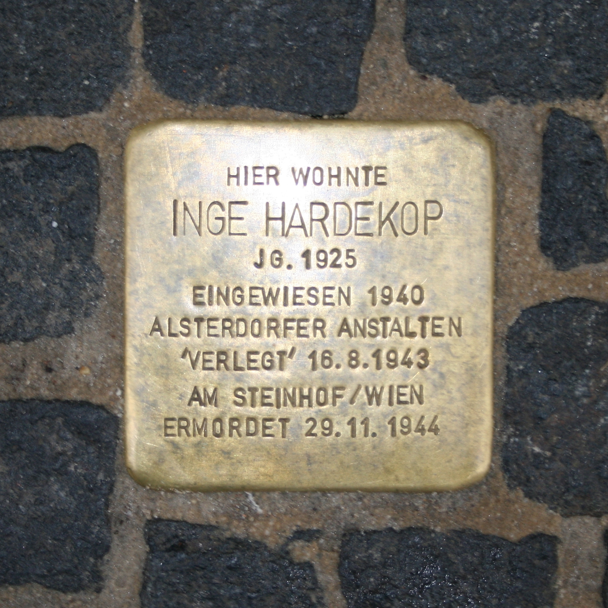 Stolperstein for Inge Hardekop in Hamburg-Bergedorf, Harders Kamp, crop